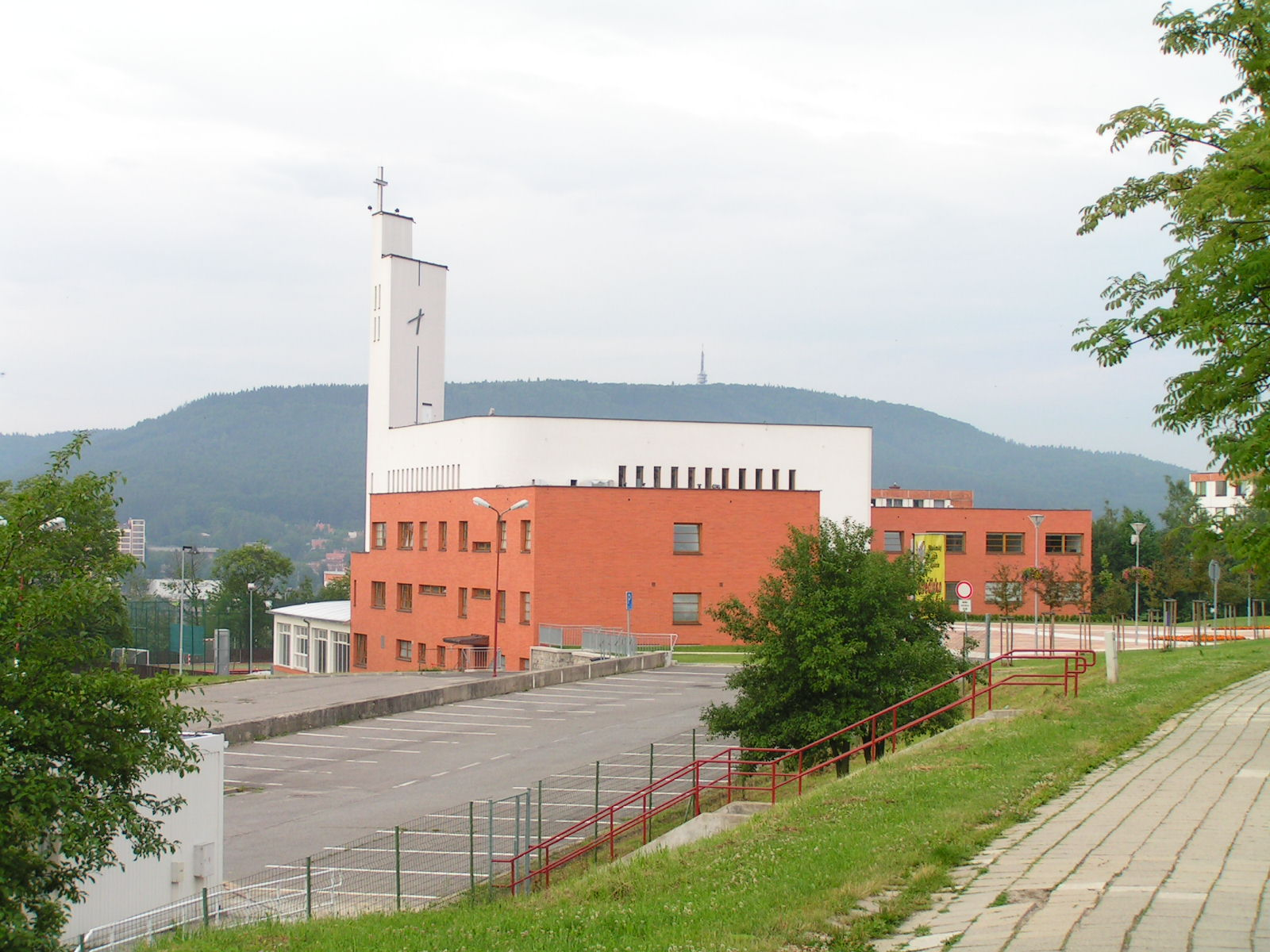 Zlín, church in Jižní Svahy.